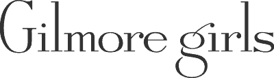 Gilmore Girls logo text Source: Mr Video Productions